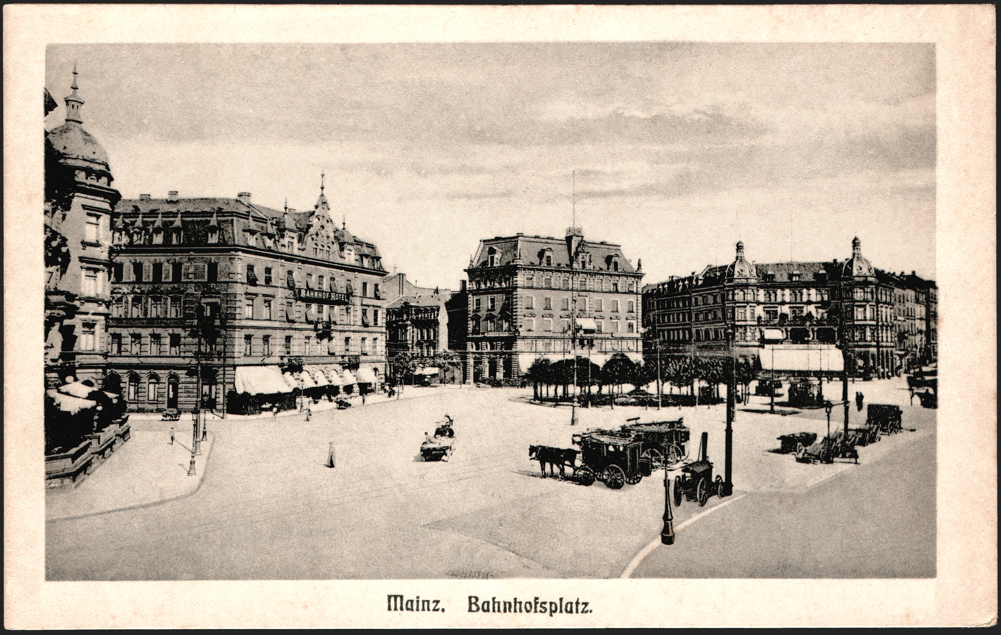 "Bahnhofplatz Mainz". The postcard, dated July 25, 1919, shows a photograph that was obviously taken before WW I. In its text, probably written by a French occcupation soldier to his sister-in-law, one can read between the lines about a tragic war background.